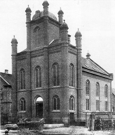 Synagogue of Gross-Gerau in Germany, built in 1892 and destroyed by the Nazis in 1938 - photo of begining of 20th century.